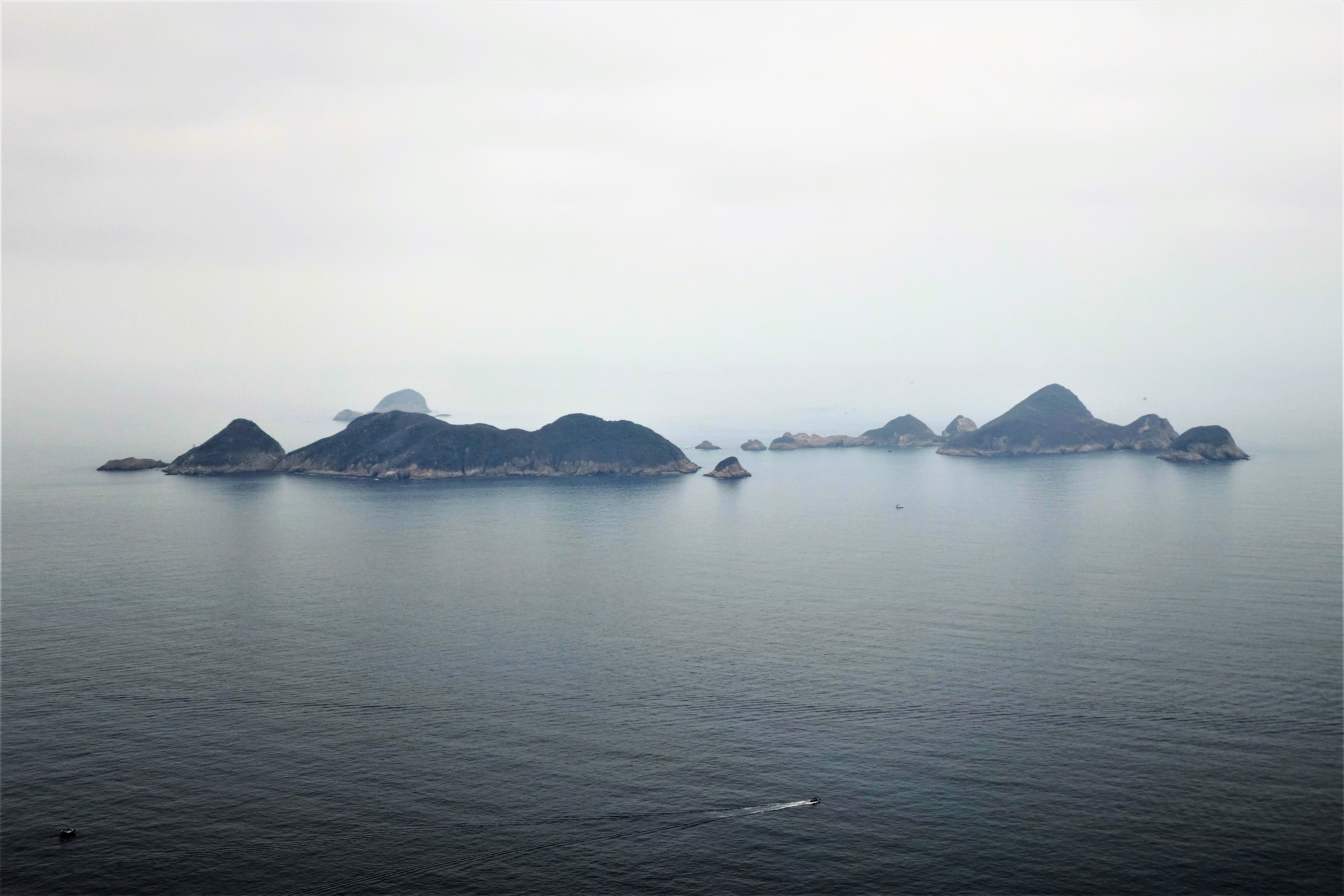 Aerial view of Ninepin Group showing North and South Ninepin Island.